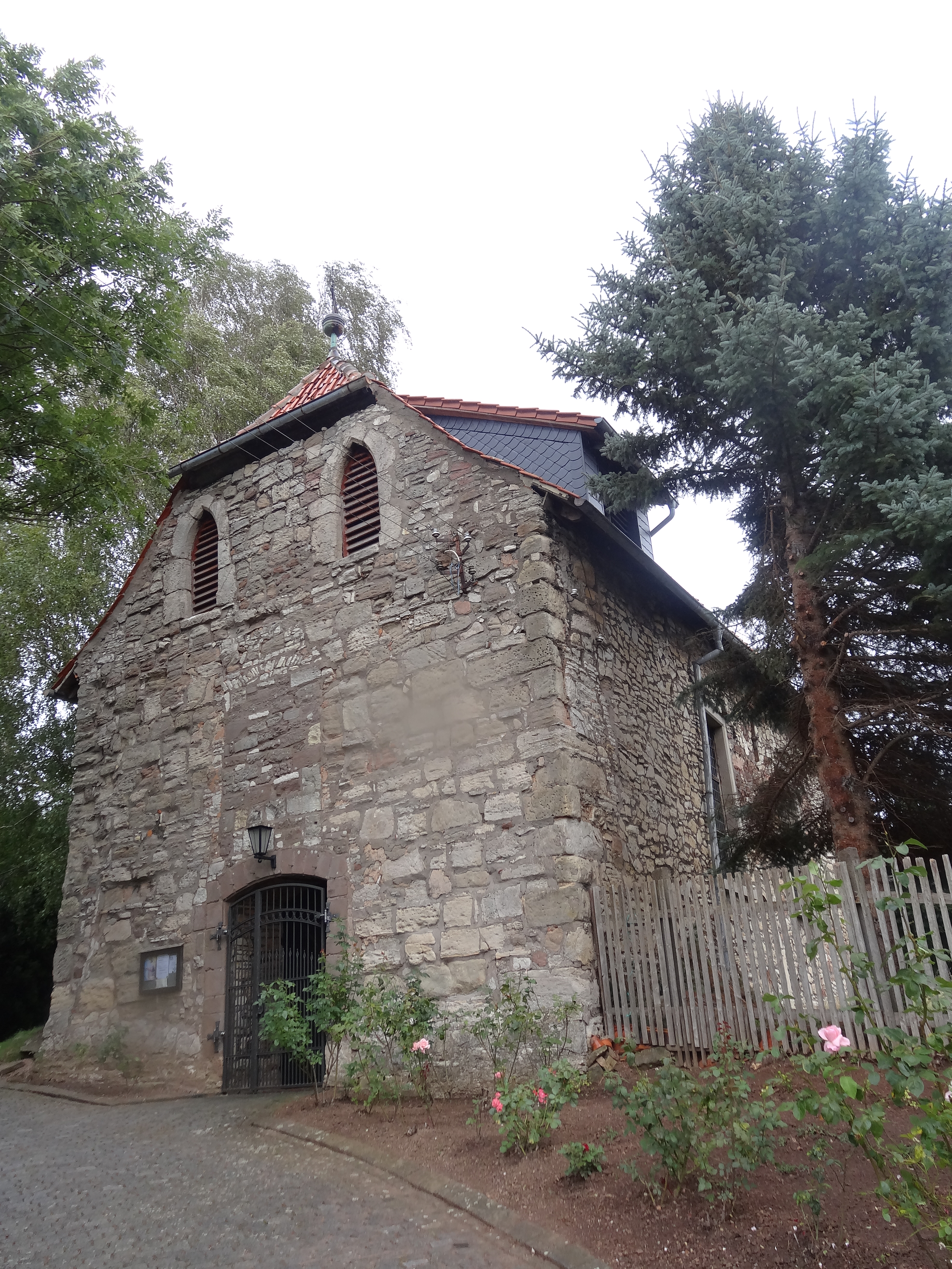 Church in Lipprechterode, Thuringia, Germany